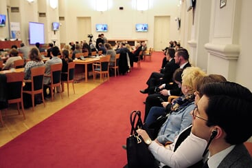 Conference IIR